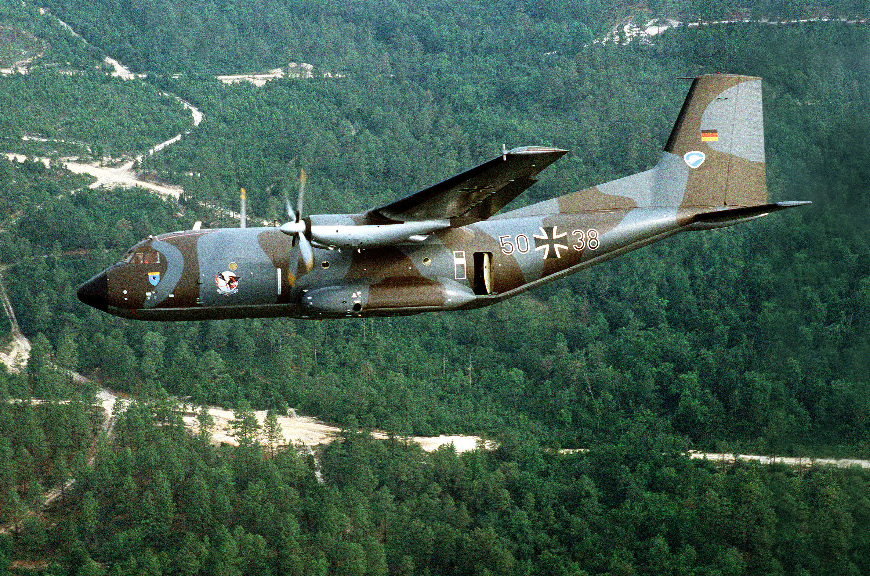 A Luftwaffe (German Air Force) Transall C-160D transport aircraft (registration 50+38) of Lufttransportgeschwader 62 (LTG 62) (Transport Wing 62) based at Wunstorf, Lower Saxony (Germany), in flight on 15 June 1983.